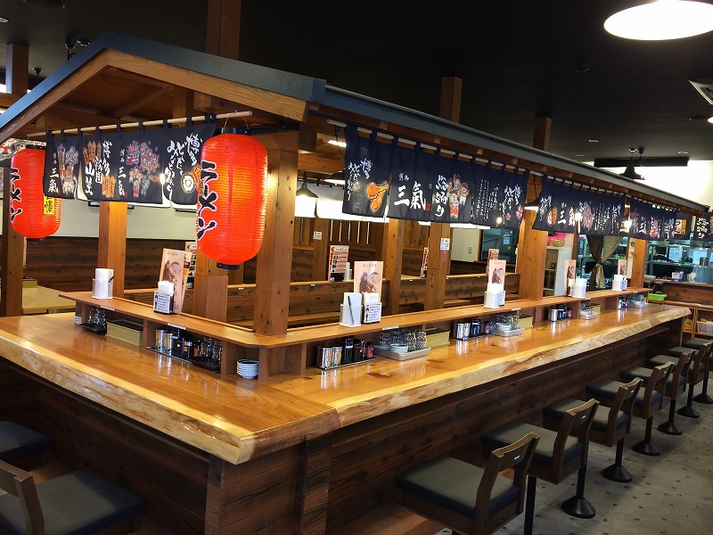 Hakata Sanki It is the inside of a shop of the Meinohama main street Fukushige store. It is the Hakata boiled-pork-ribs ramen-noodles specialty store.